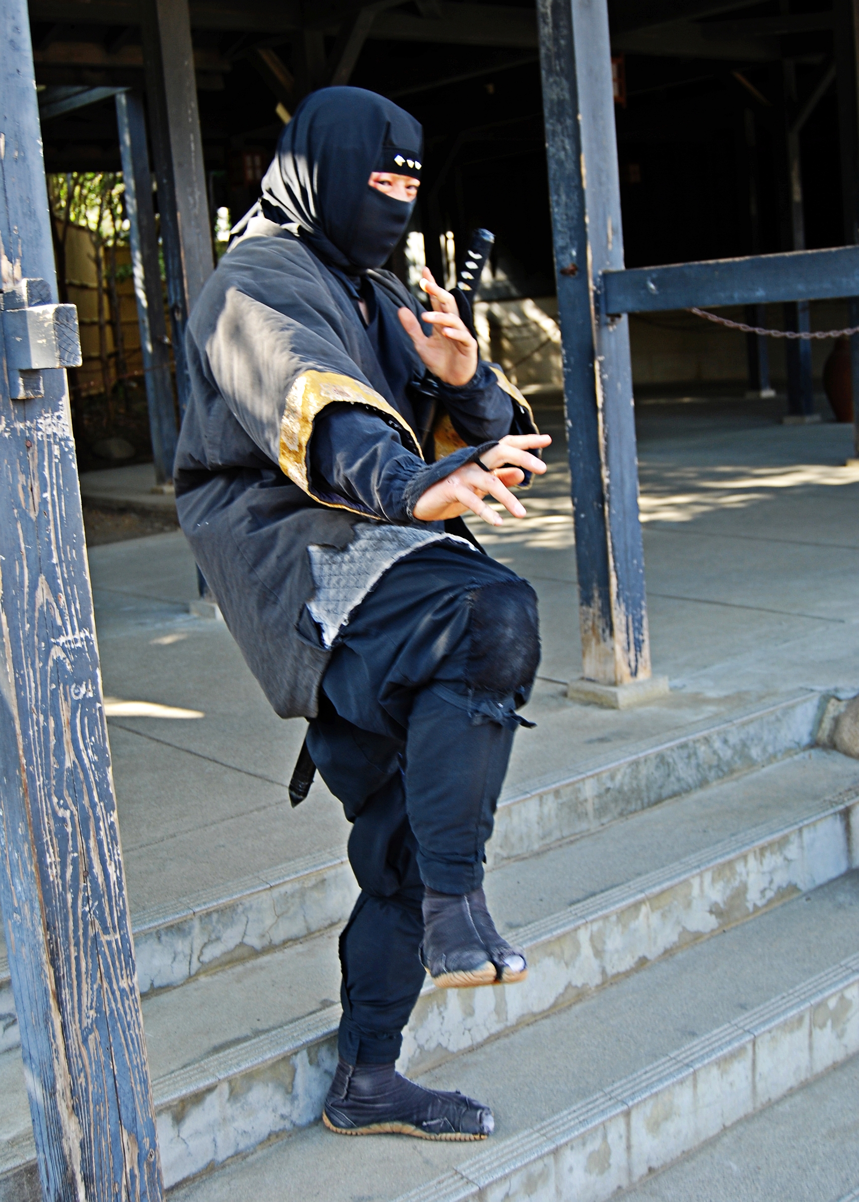 Ninja in Edo Wonderland - a theme park with an Edo Period theme.